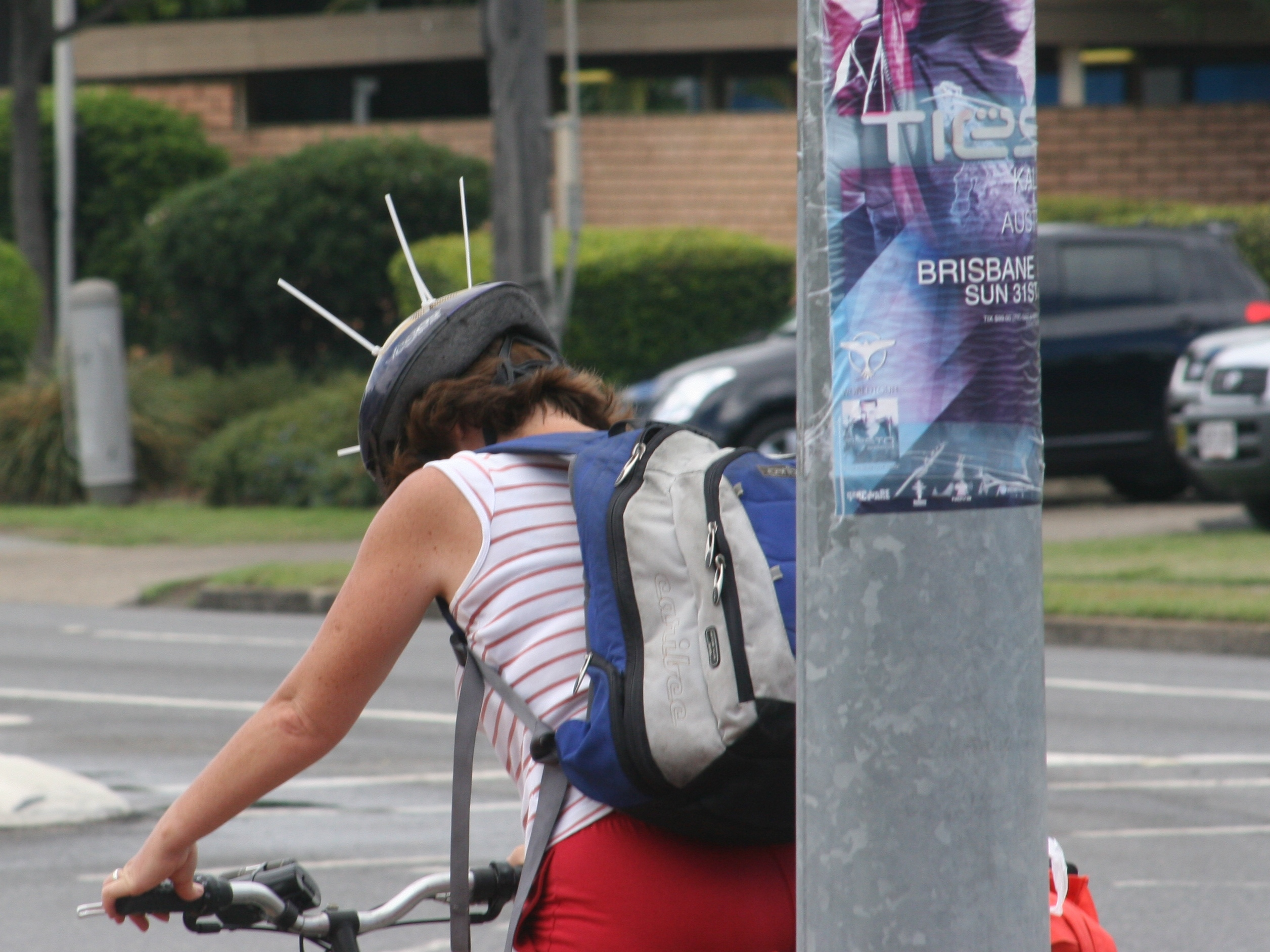 A cyclist in Brisbane wearing a "hedgehog" hat, usually made from cable ties attached to a cycle helmet in order to deter territorial magpies from diving upon them. Brisbane, Australia.